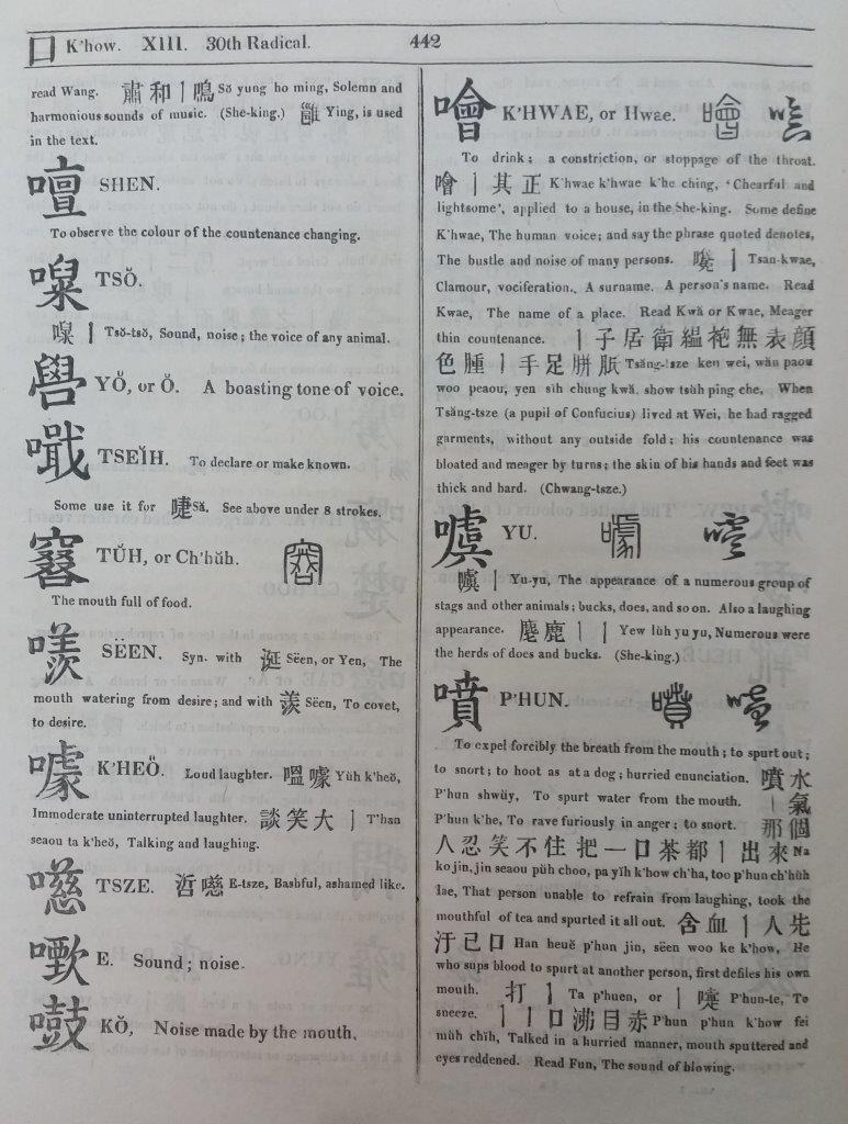 Sample page of Morrison's Chinese-English Dictionary of 1815